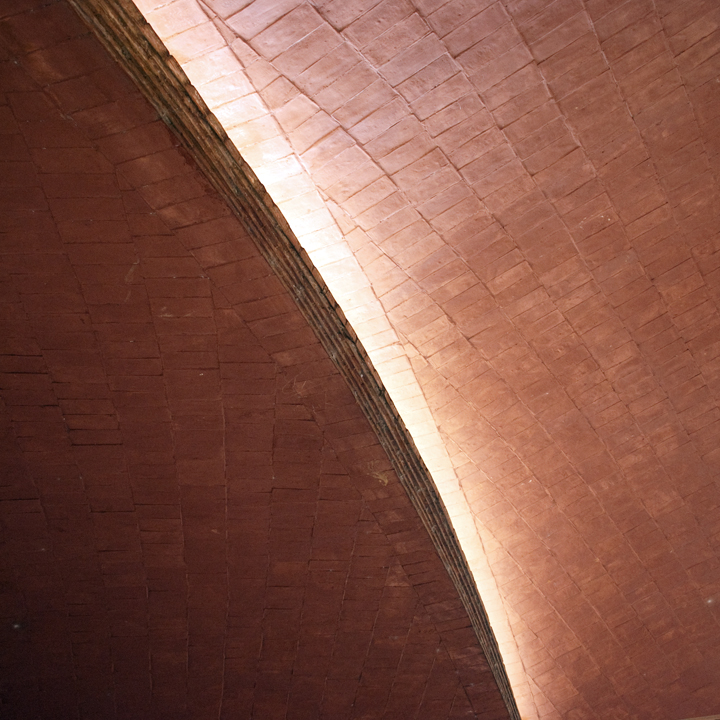 Terracotta tile arches, interior view from hallway